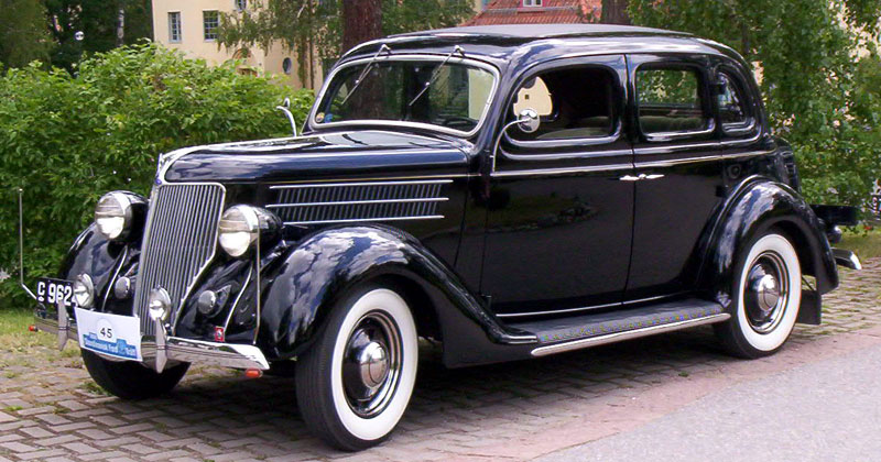 Ford Model 68 730 De Luxe Fordor Touring Sedan 1936